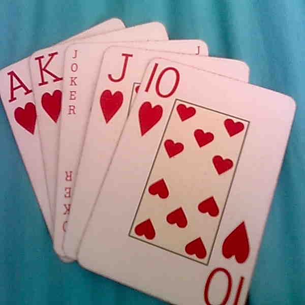 Royal Flush (Hearts) hand with a Joker in the place of Queen in poker game